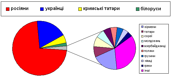 National composition of the population of Feodosiya